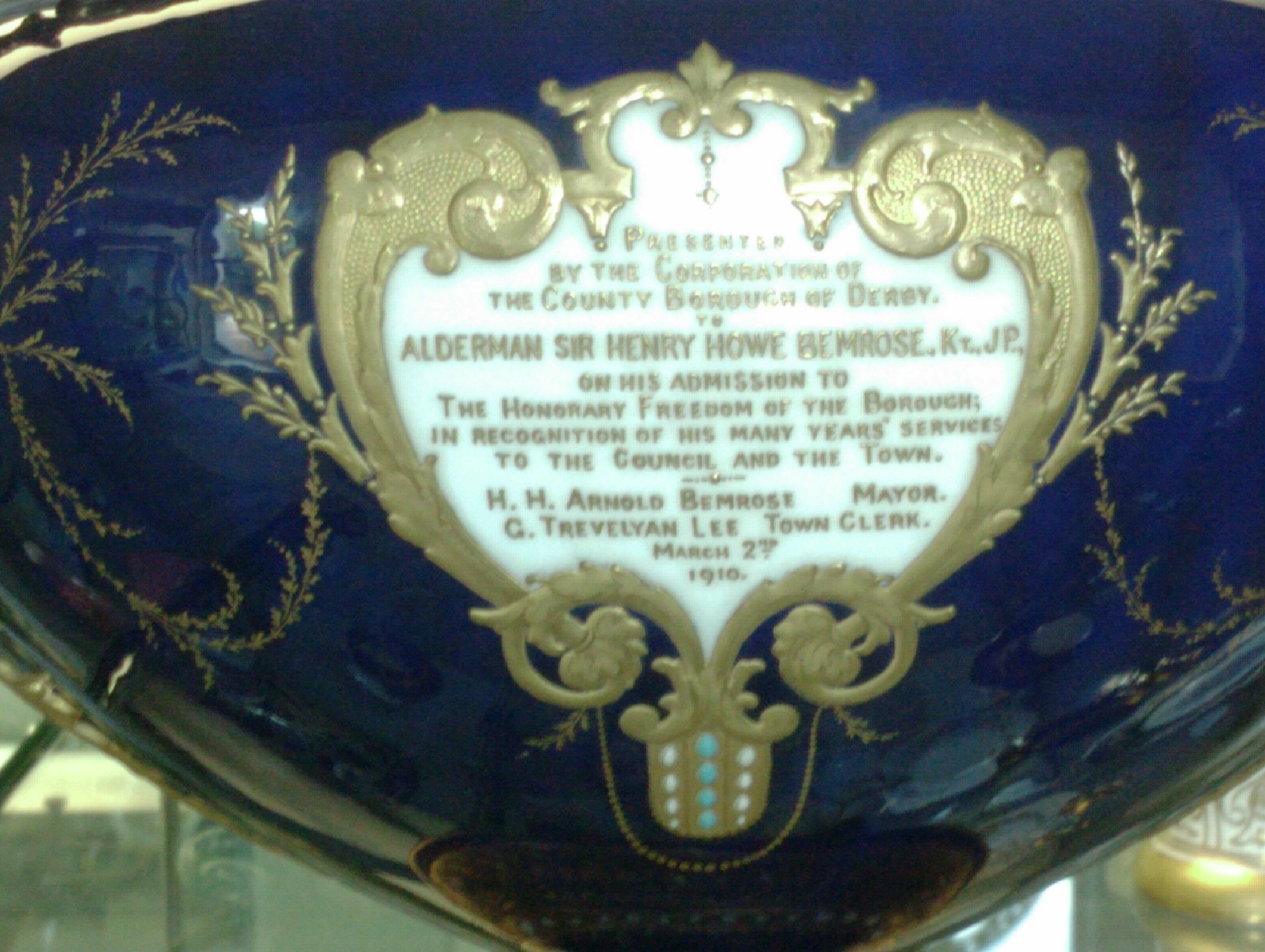 Sir Henry Howe Bemrose Freedom on Borough 1910 Derby Porcelain in Derby Museum